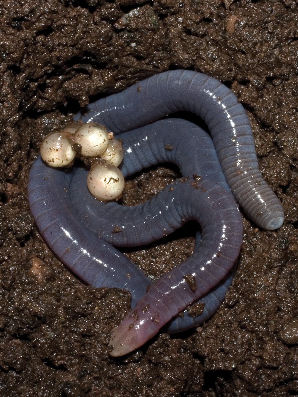 Presumed Microcaecilia dermatophaga mother with a connected string of five eggs.